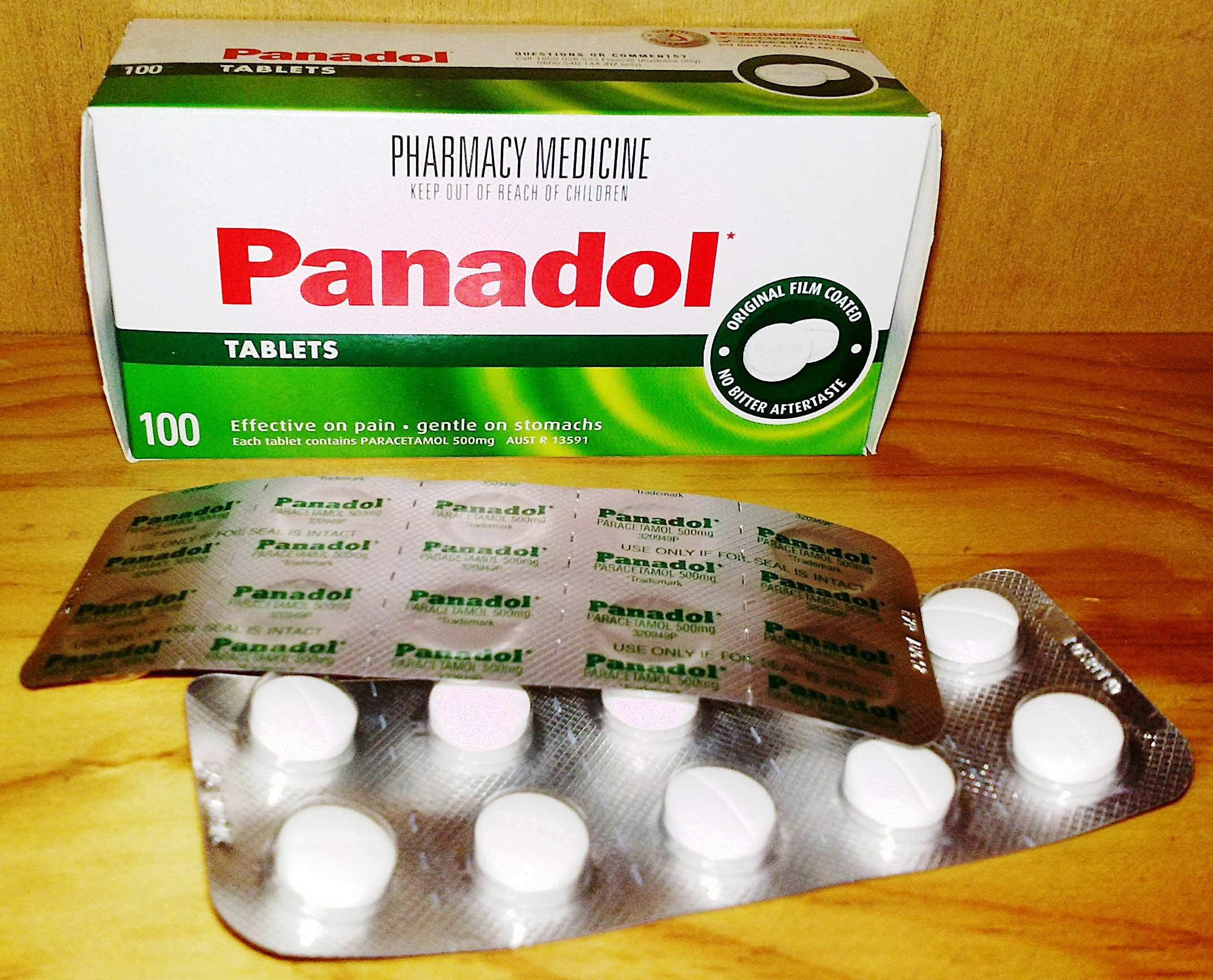 Panadol